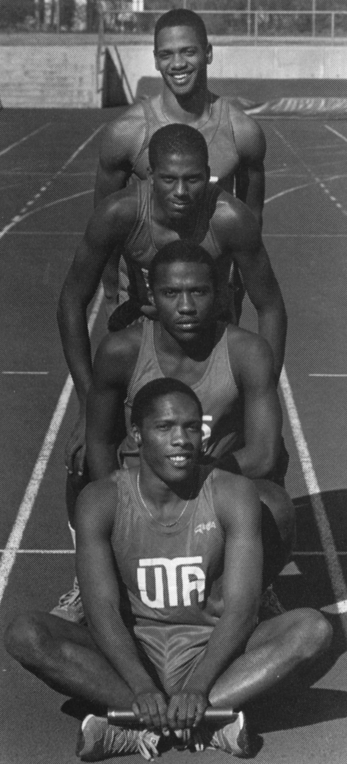 Four unidentified members of the University of Texas at Arlington track team.